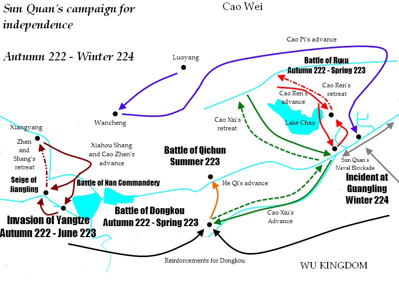 A very details map showing Sun Quan's campaign for independence. A new version would be great and allowed, as this is pretty difficult to read.